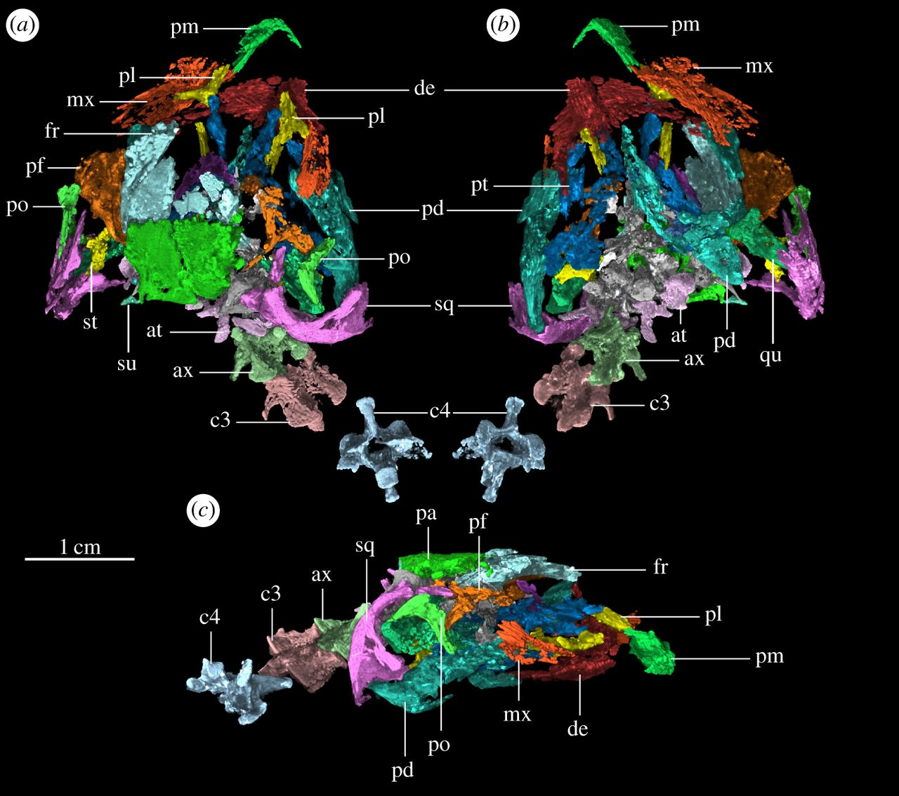 Three-dimensional volume rendering of the in situ skull of Avicranium renestoi (AMNH FARB 30834) from µCT data in (a) dorsal view, (b) ventral view and (c) left lateral view. Abbreviations: at, atlantal neural arch; ax, axis; c3, cervical vertebra 3; c4, cervical vertebra 4; de, dentary; fr, frontal; mx, maxilla; pd, postdentary elements; pf, postfrontal; pl, palatine; pm, premaxilla; po, postorbital; pt, pterygoid; qu, quadrate; sq, squamosal; su, supratemporal.